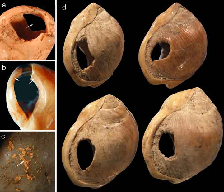 Image created by Chris Henshilwood & Francesco d'Errico. Permission to use image held by Henshilwood